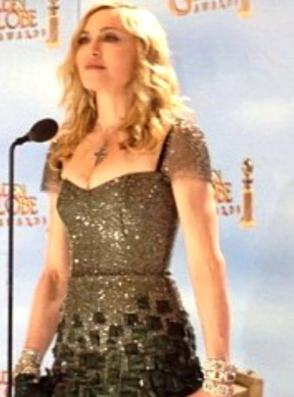 69th Annual Golden Globes Awards.